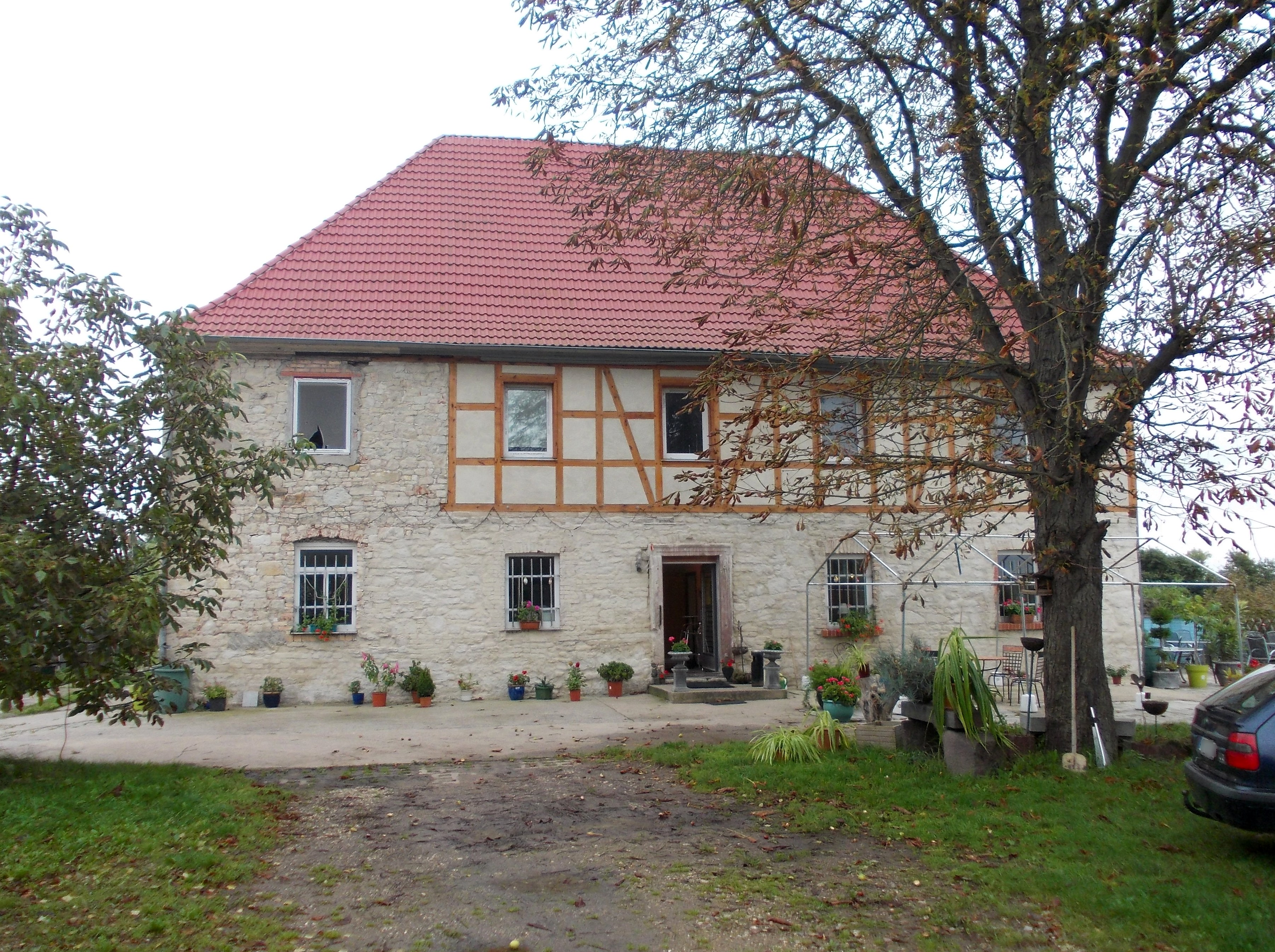 Broihanschenke, historic inn in Ammendorf (Halle/Saale, Saxony-Anhalt)